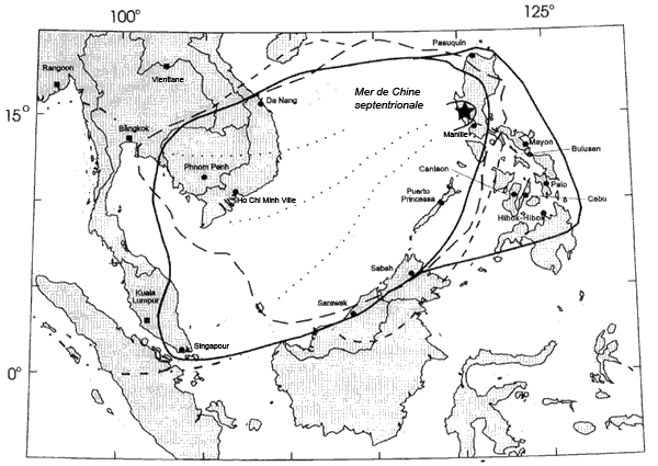 Area over which tephra from 1991 eruption of Mt Pinatubo fell. This map was improved or created by the Wikigraphists of the Graphic Lab (fr). You can propose images to clean up, improve, create or translate as well. azərbaycanca · বাংলা · català · čeština · Deutsch · Deutsch (Sie-Form) · Ελληνικά · English · Esperanto · español · suomi · français · עברית · magyar · Հայերեն · italiano · 한국어 · македонски · Bahasa Melayu · Plattdüütsch · Nederlands · occitan · polski · português · română · русский · slovenščina · svenska · татарча/tatarça · Türkçe · українська · 中文 · 中文（简体） · 中文（繁體） · Zazaki +/−